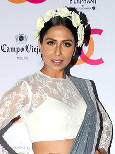 Candice Pinto graces the launch of White Elephant